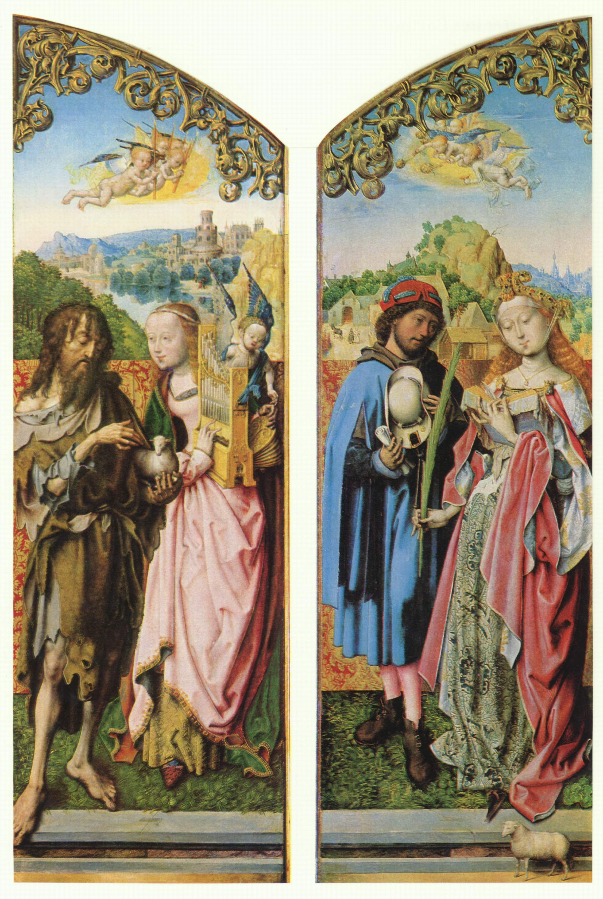 Inner left and right wings of the Kreuzaltar.